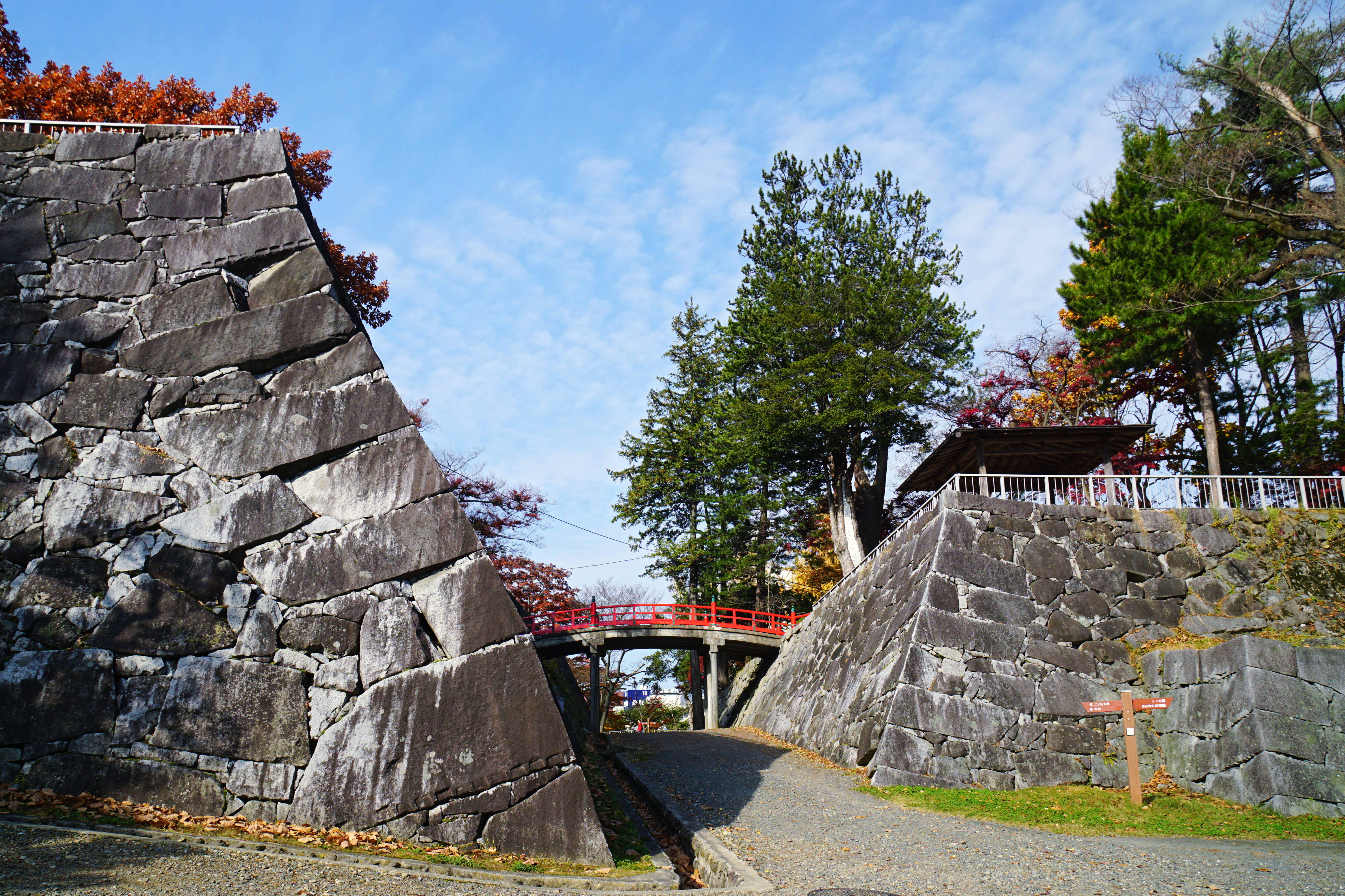 Morioka_Castle in Morioka, Iwate prefecture, Japan